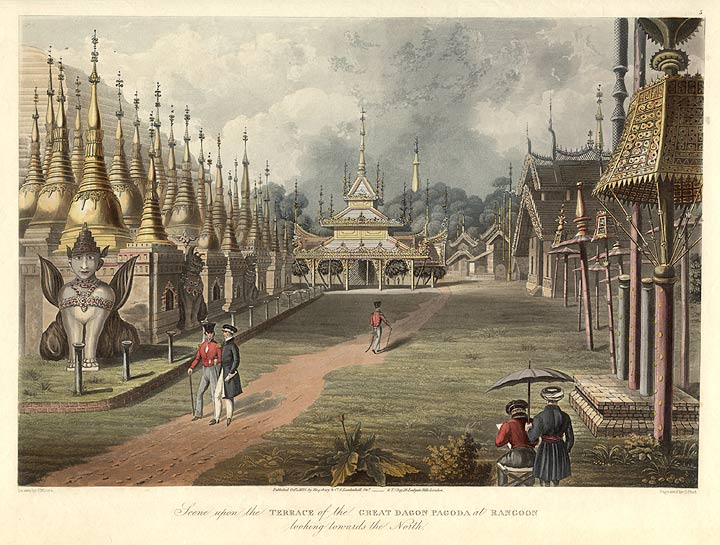 Scene upon the terrace of the Great Dragon Pagoda at Rangoon. Looking towards the north